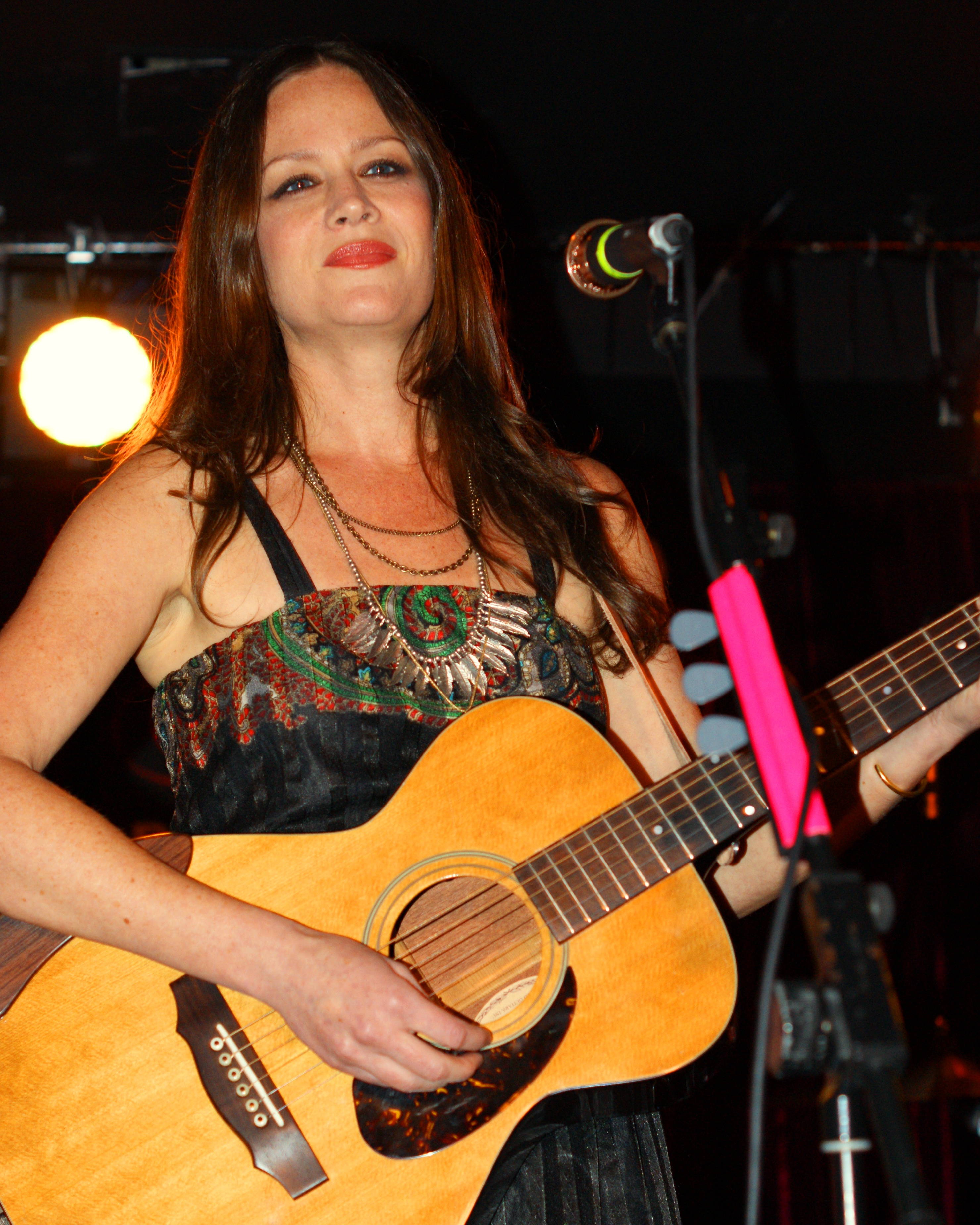 Allison Pierce of The Pierces at the Ruby Lounge, Manchester, on Saturday the 11th of June 2011.